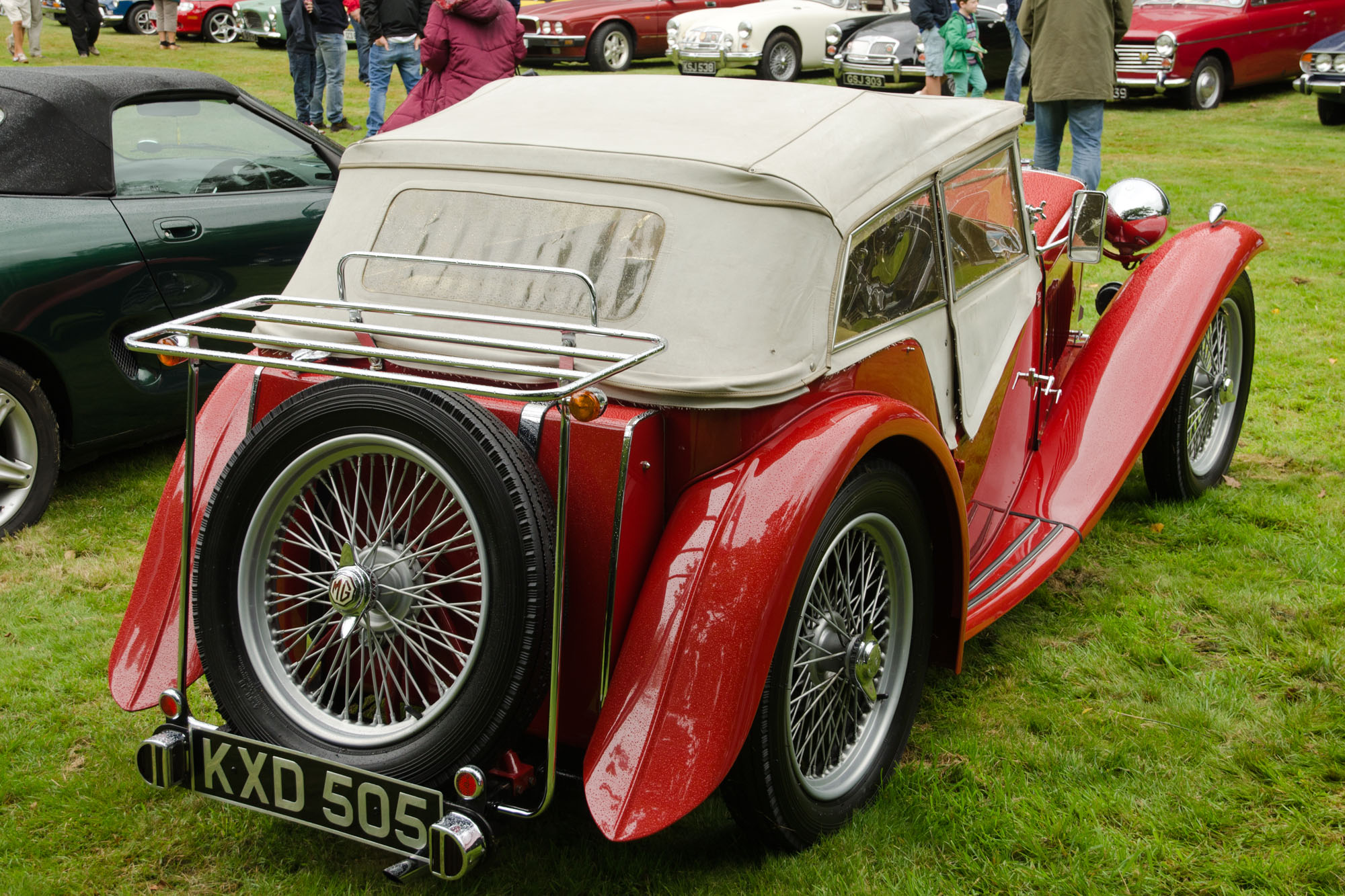 Lytham Hall Classic Car Show 03/08/2014